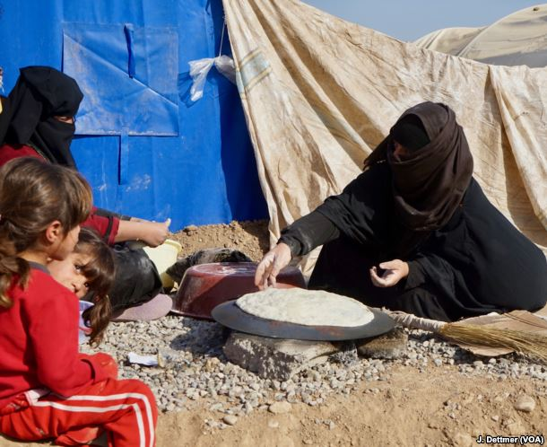 A displaced Sunni Arab family from Mosul. Kurdish officials say they are unsure who to trust in villages captured from ISIS.